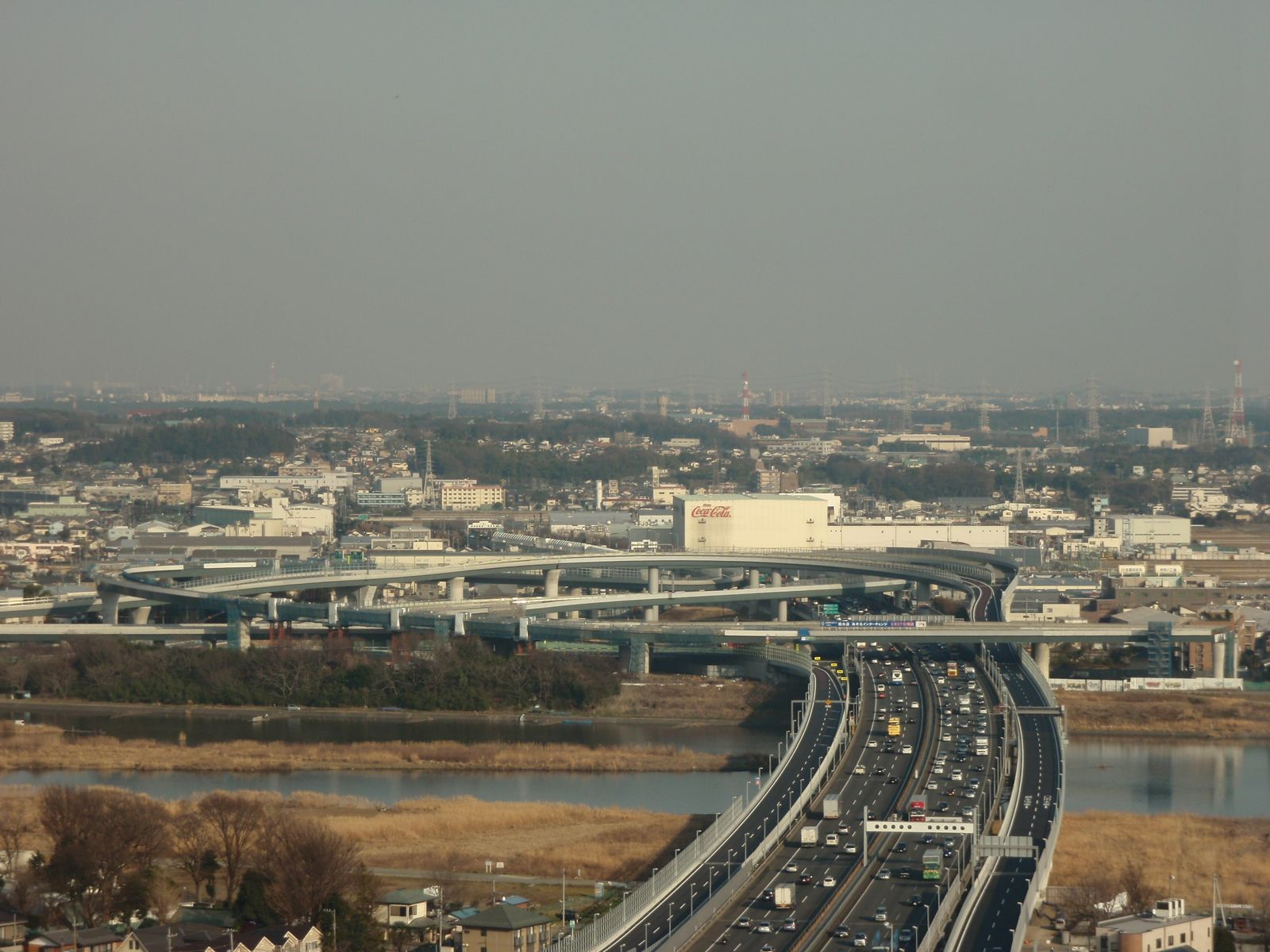 Ebina junction